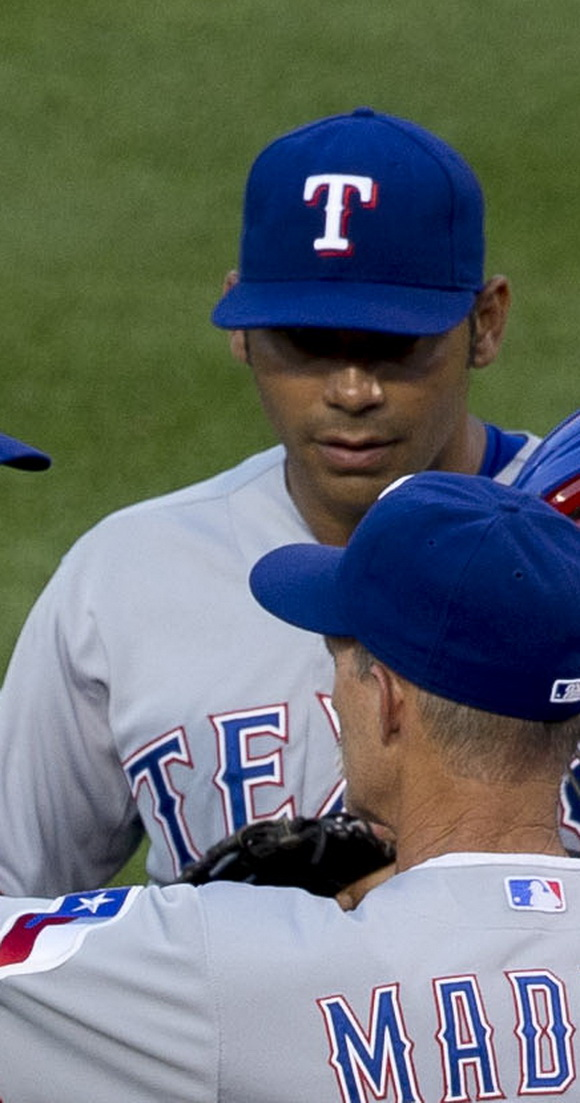 Carlos Pena on June 30.